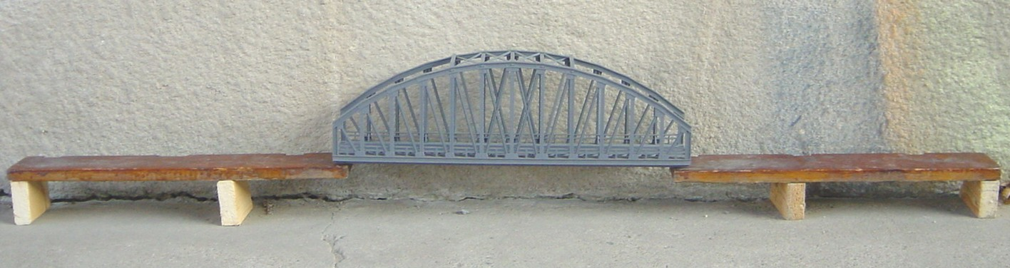 model of a cantilever bridge